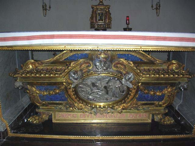 Tomb of Sant Romuald, in St. Biagio church at Fabriano (18th cent.)